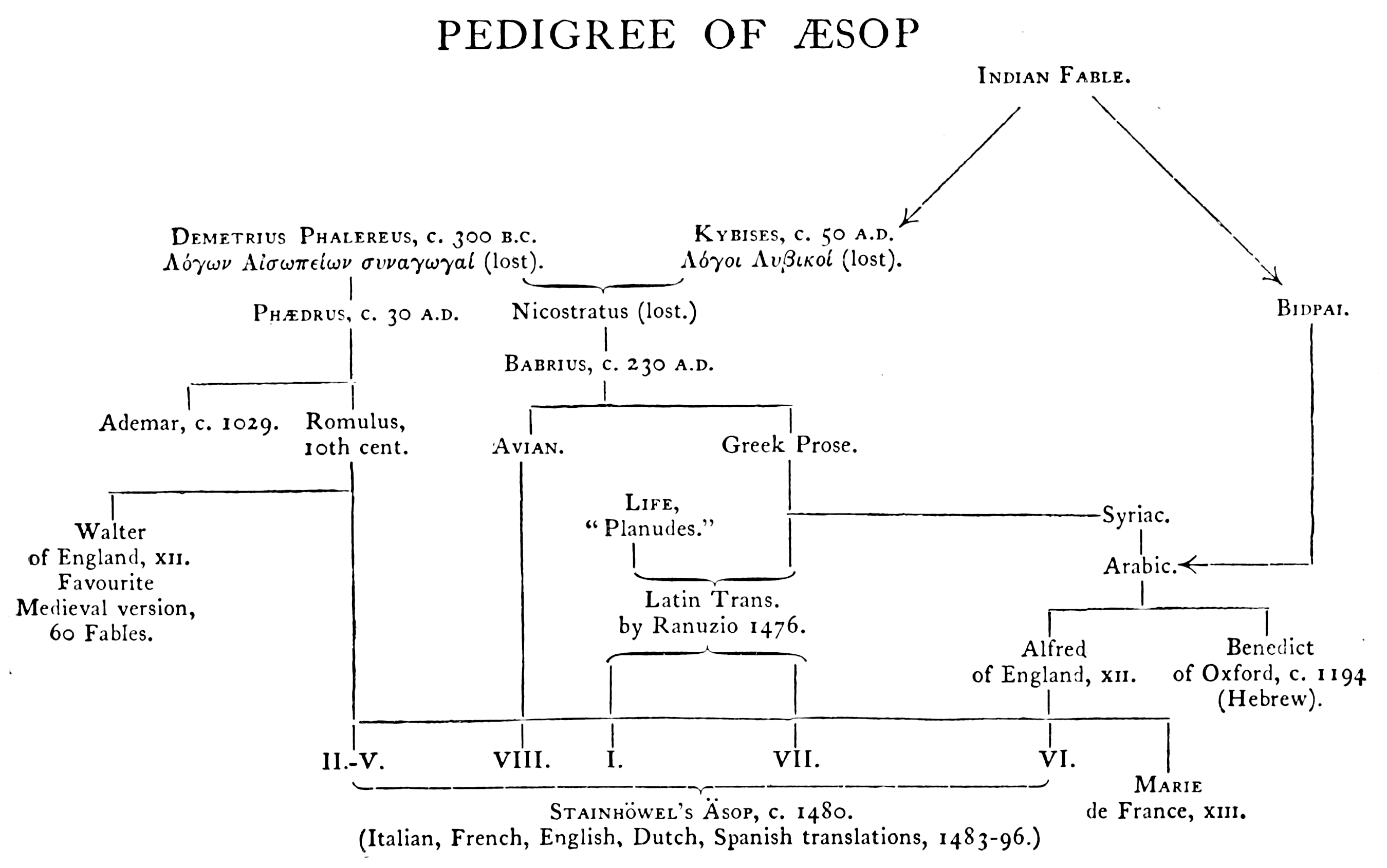 Collection of fables with illustrations.